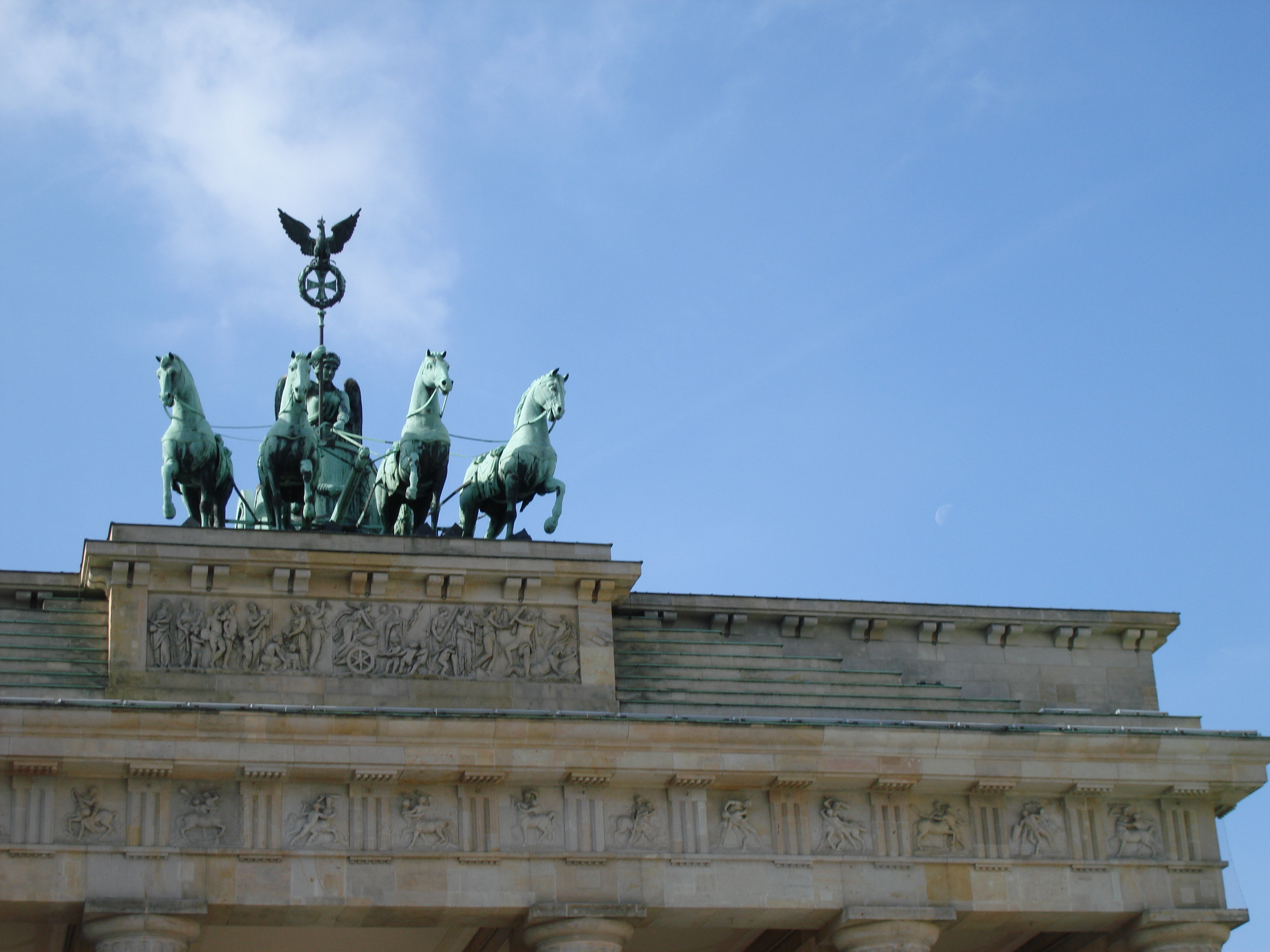 The Quadriga on the Brandenburg Gate